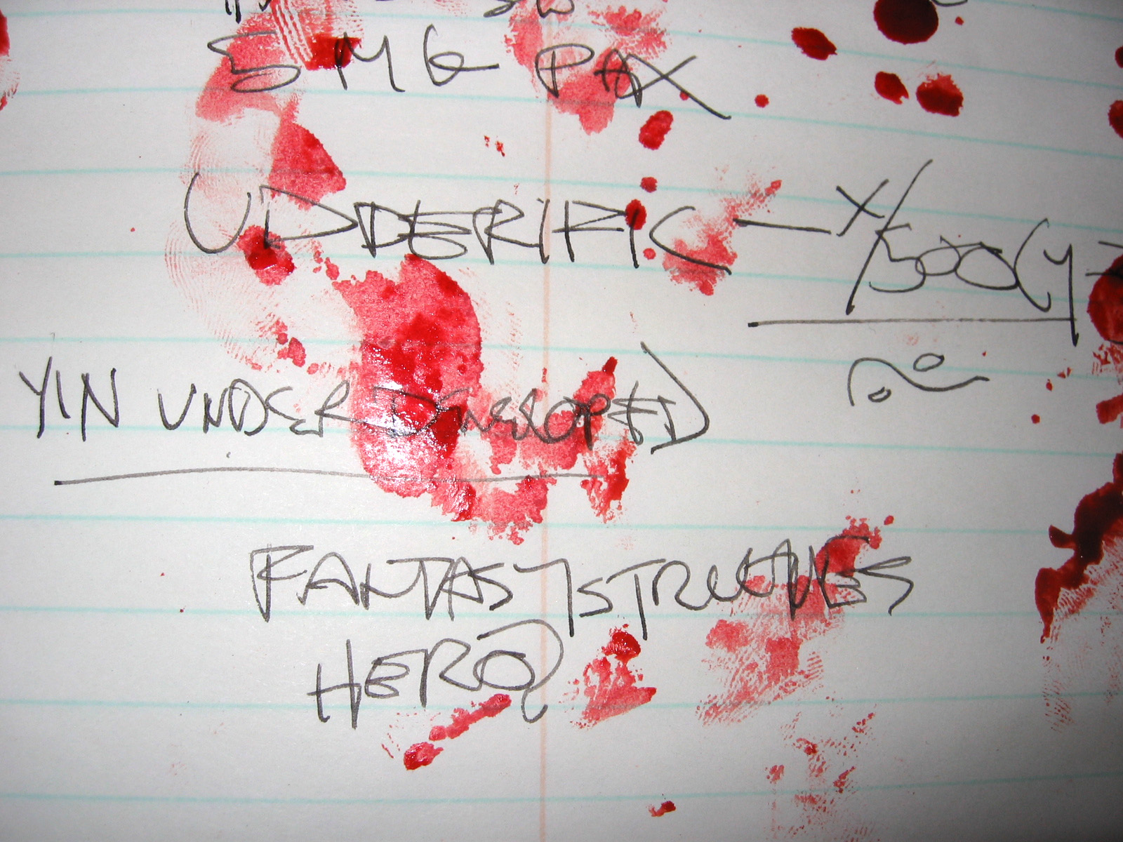 by request, uploading these under a CC license. The full story is here: Contrary to the beliefs of some, this is not fanfic, though I wish I'd thought of that. I've still got this notebook somewhere, wrapped in plastic, presumably still bloody. A notebook posted on Sixsquares and said to be a prop from the R. Tam Sessions short video series.